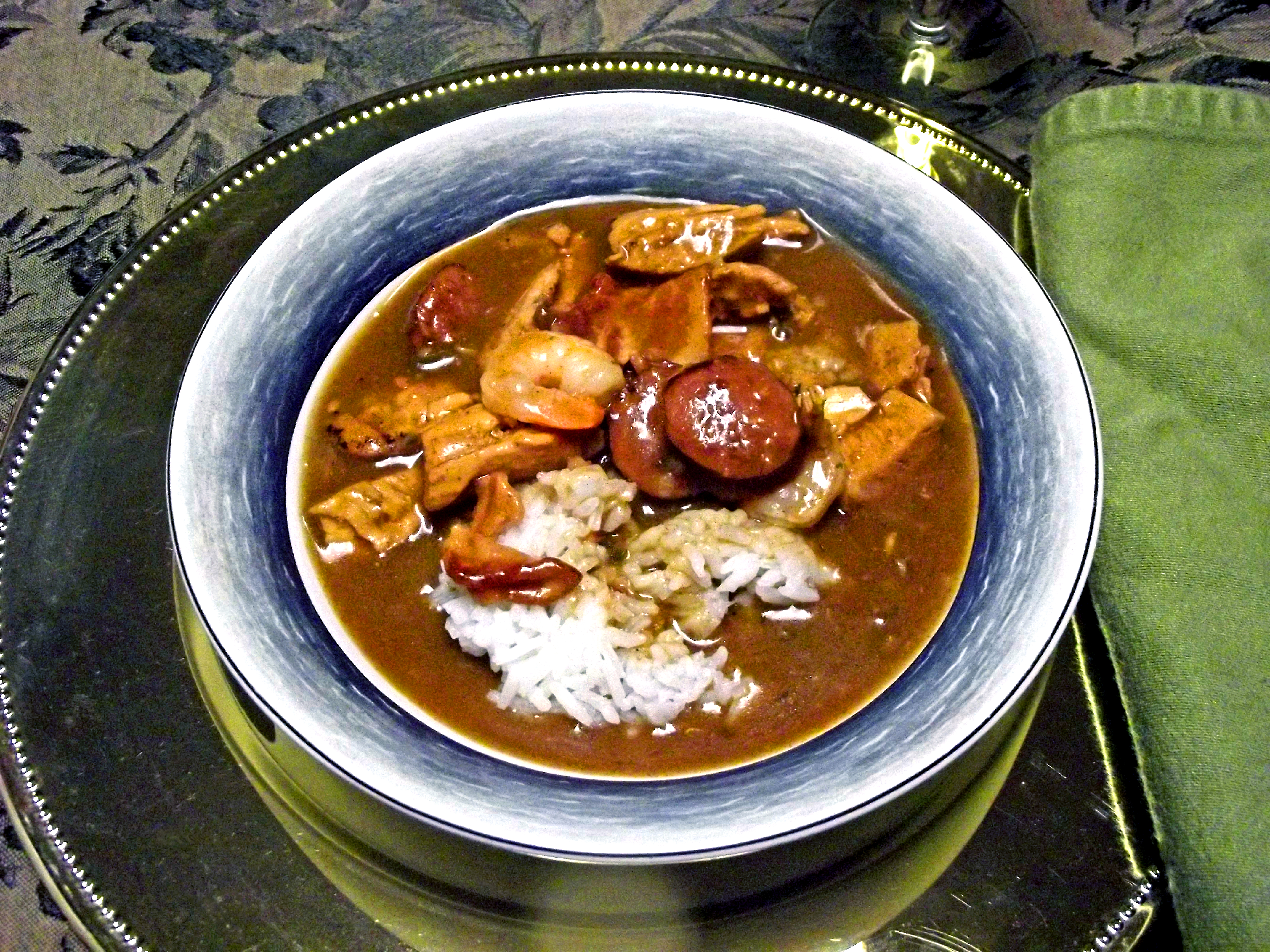 Gumbo over rice.